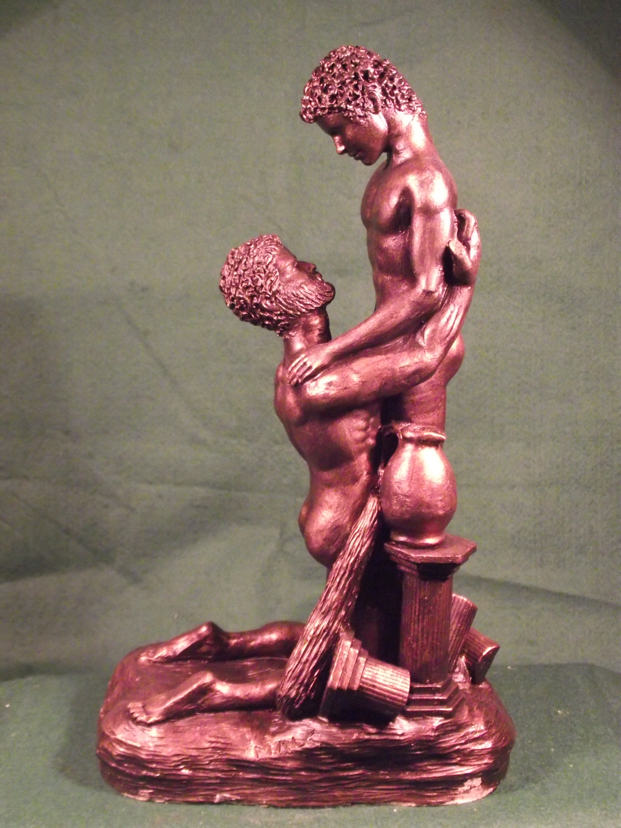 Hercules and Hylas. Composite constructed sculpture of historical figure(s) reputed to have had a same sex relationships. Made of various materials & found objects with thin veneer film of bronze patina-ted paint giving appearance of solid bronze. A Metaphor of the appearance of solidity of LGBT rights & equality in law in the UK. Created by artist Malcolm Lidbury for 2016 LGBT History & Art Project Cornwall UK.